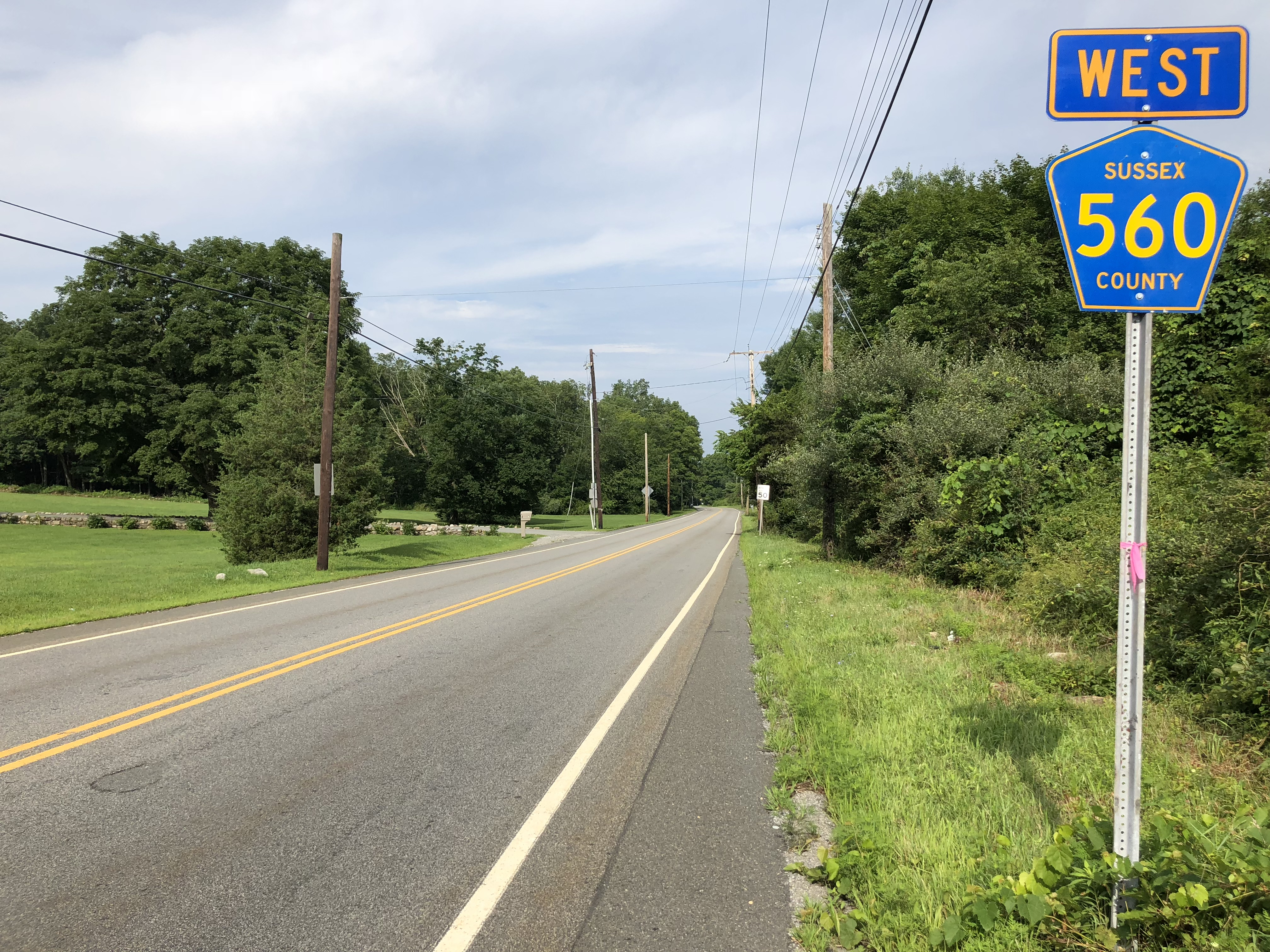 View west along Sussex County Route 560 (Tuttles Corner-Dingmans Road) just west of U.S. Route 206 and Sussex County Route 521 in Sandyston Township, Sussex County, New Jersey